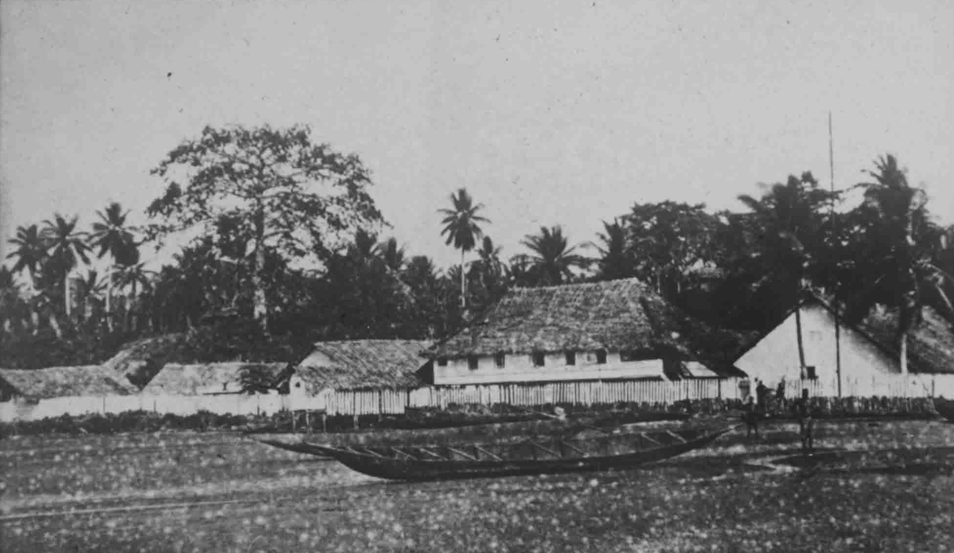 Buildings of the Old Branch Offices of the Woermann Company in Cameroon (original format 8.5 x 10 cm incl. margins)